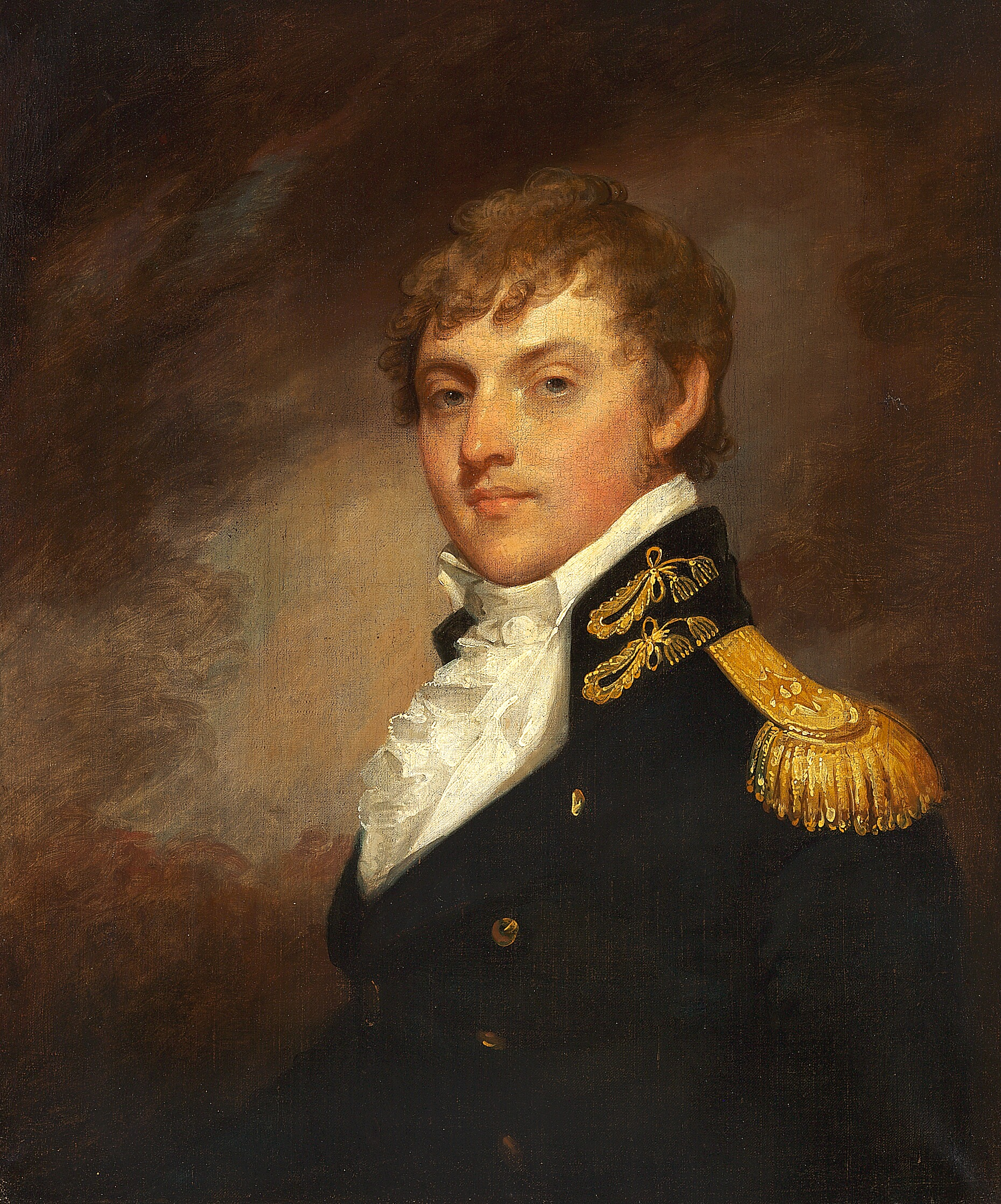 The experts at Bruun Rasmussen ascribed this portrait to an unknown British painter.